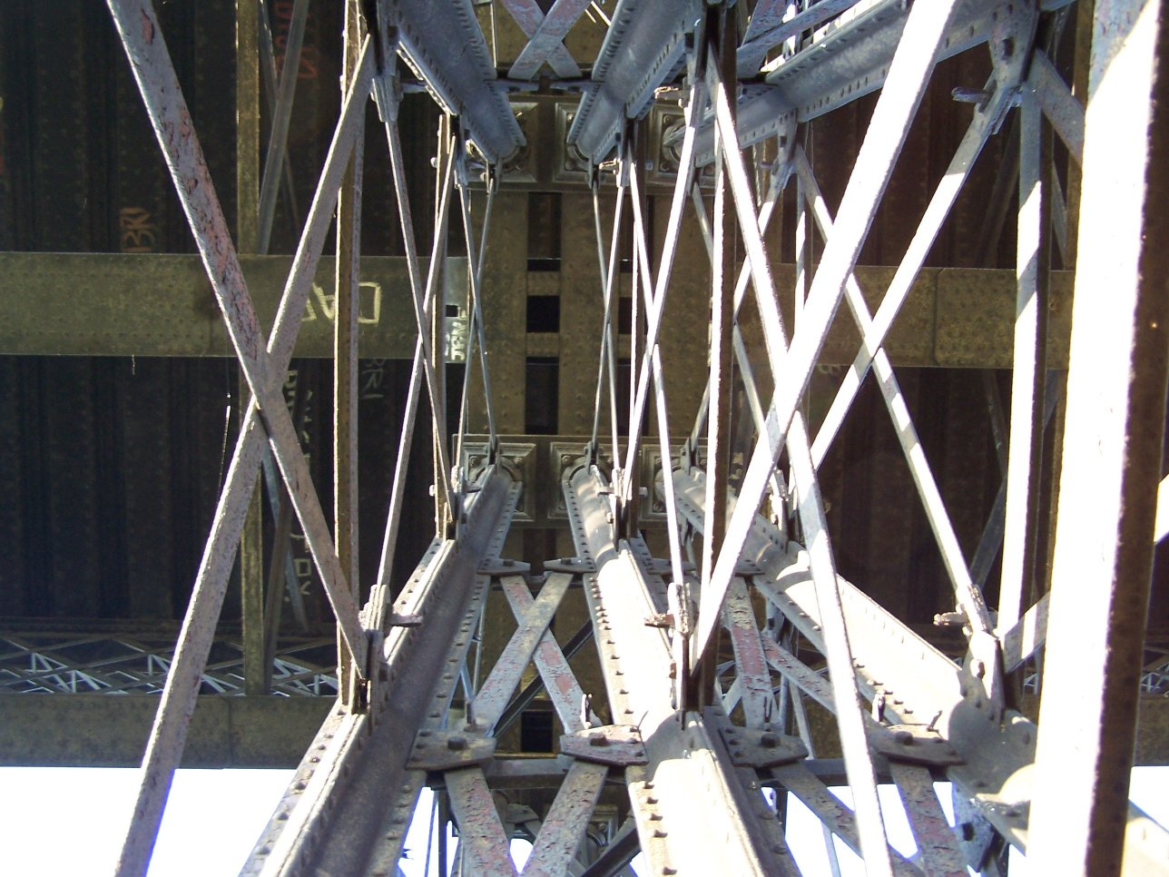 Author: Tina Cordon, Source: Own Picture, Tina Cordon (talk) 21:12, 24 February 2009 (UTC)